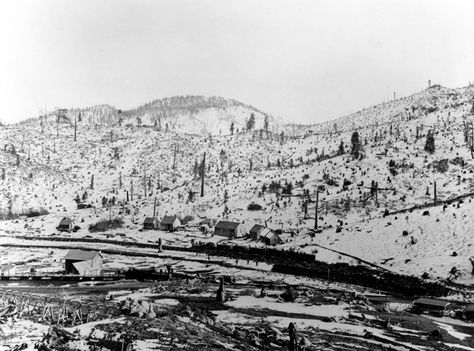 Image of Spooner Summit in the Carson Range of the Sierra Nevada showing the clear-cutting of the mountains and railroad moving lumber from Lake Tahoe and Spooner Lake to Carson City Nevada.